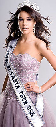 Crown and banner photo of Miss Pennsylvania Teen USA 2009